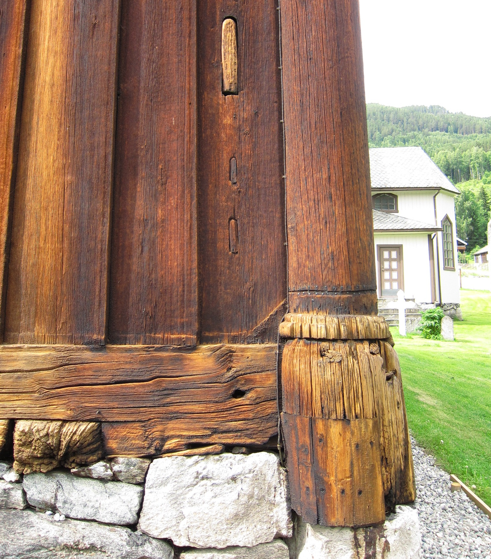 Torpo stave church detail